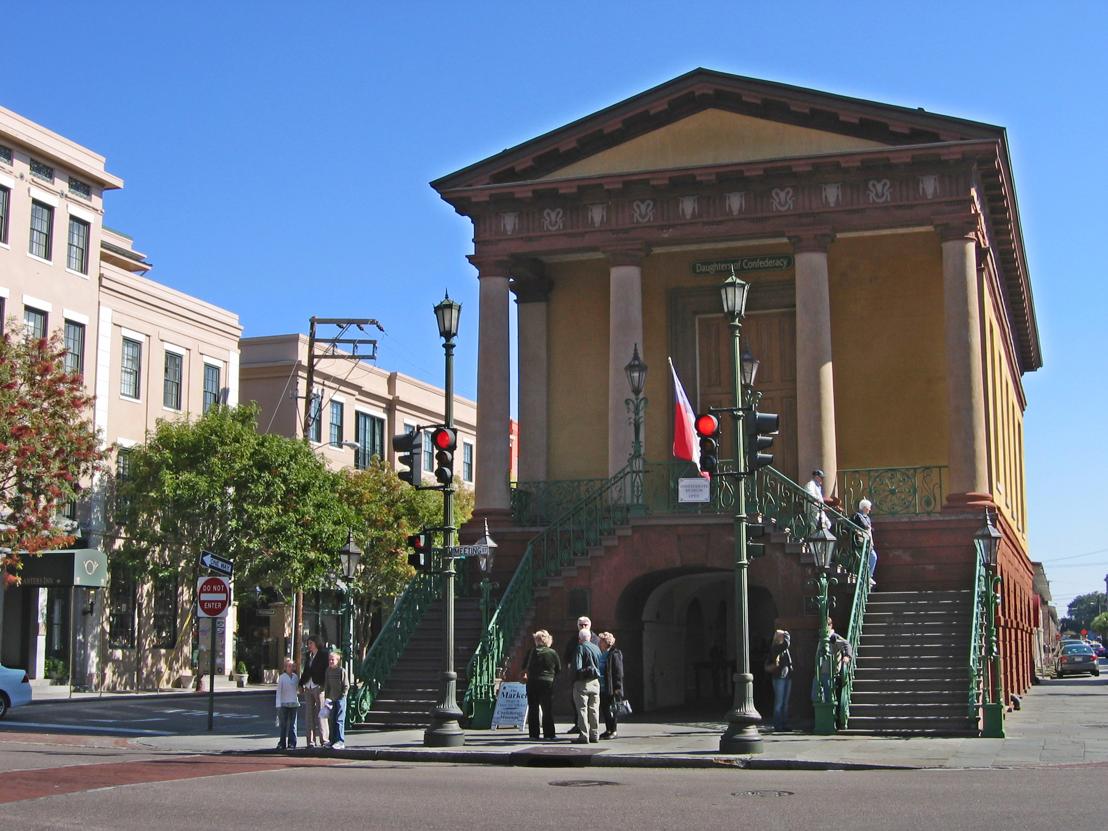 Photo by User:AudeVivere